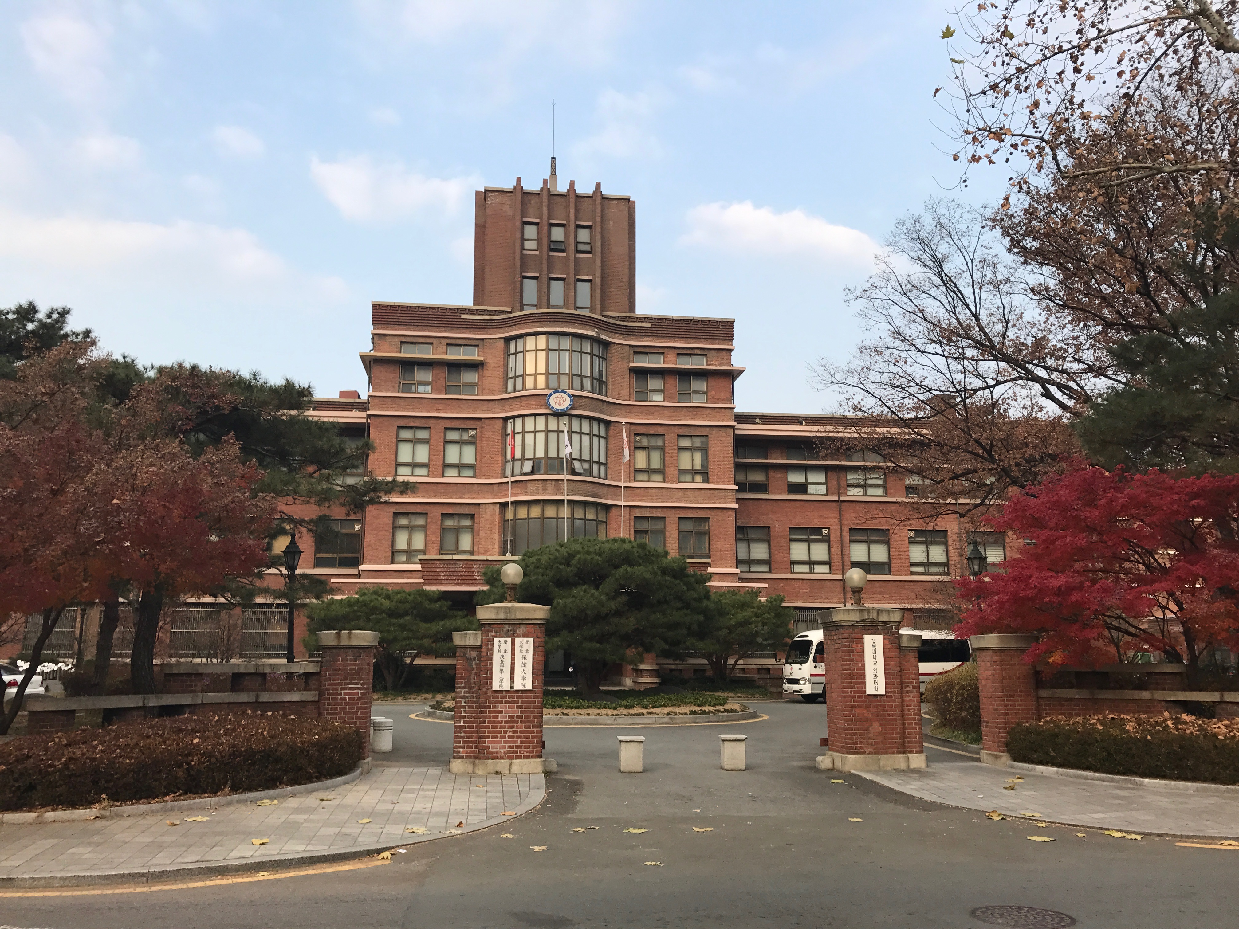 KNU Hospital main building